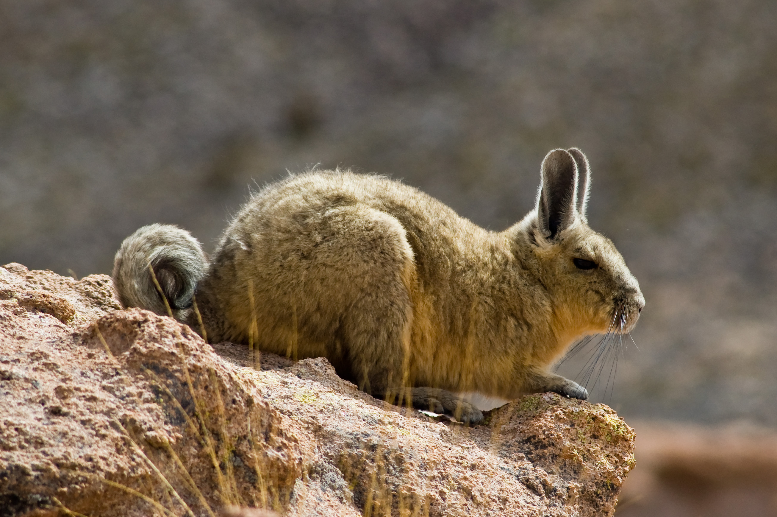 A vizcacha (Lagidium viscacia) in the Sur Lipez desert, Bolivia. This was taken in the same spot as Sur Lipez.jpg.